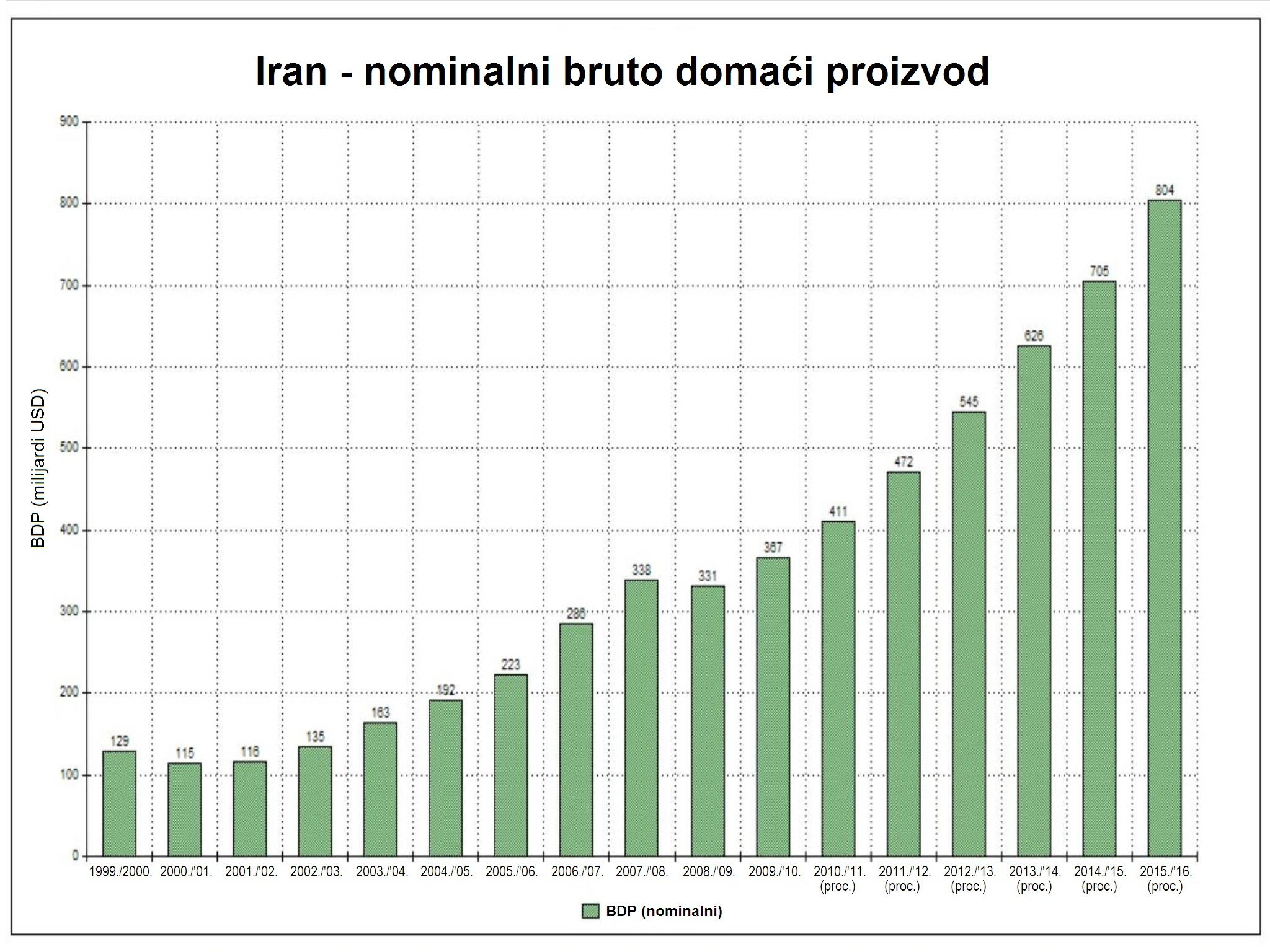 Iran's GDP (nominal, billion $, projections). Source for raw data: World Bank (1999-2008) & the Economist (2009-2015)